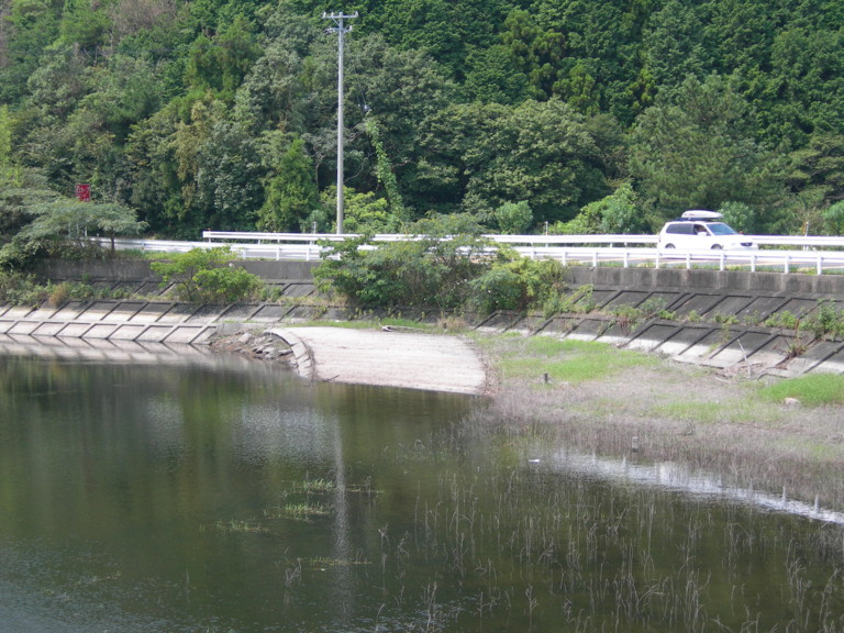 Mie prefectural route No.32, between Ise city and Shima city in Japan.